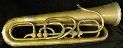 The original F-Tuba of Moritz and Wieprecht. Serial number 64 (September 1835)